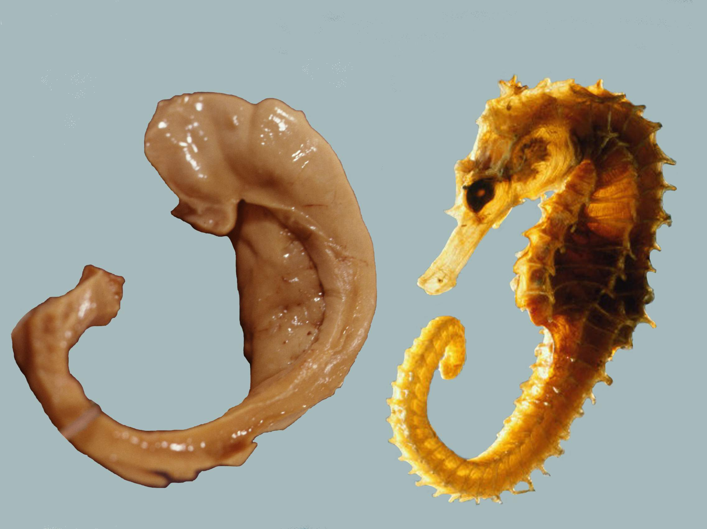 Laszlo Seress' preparation of a human hippocampus alongside a sea horse.